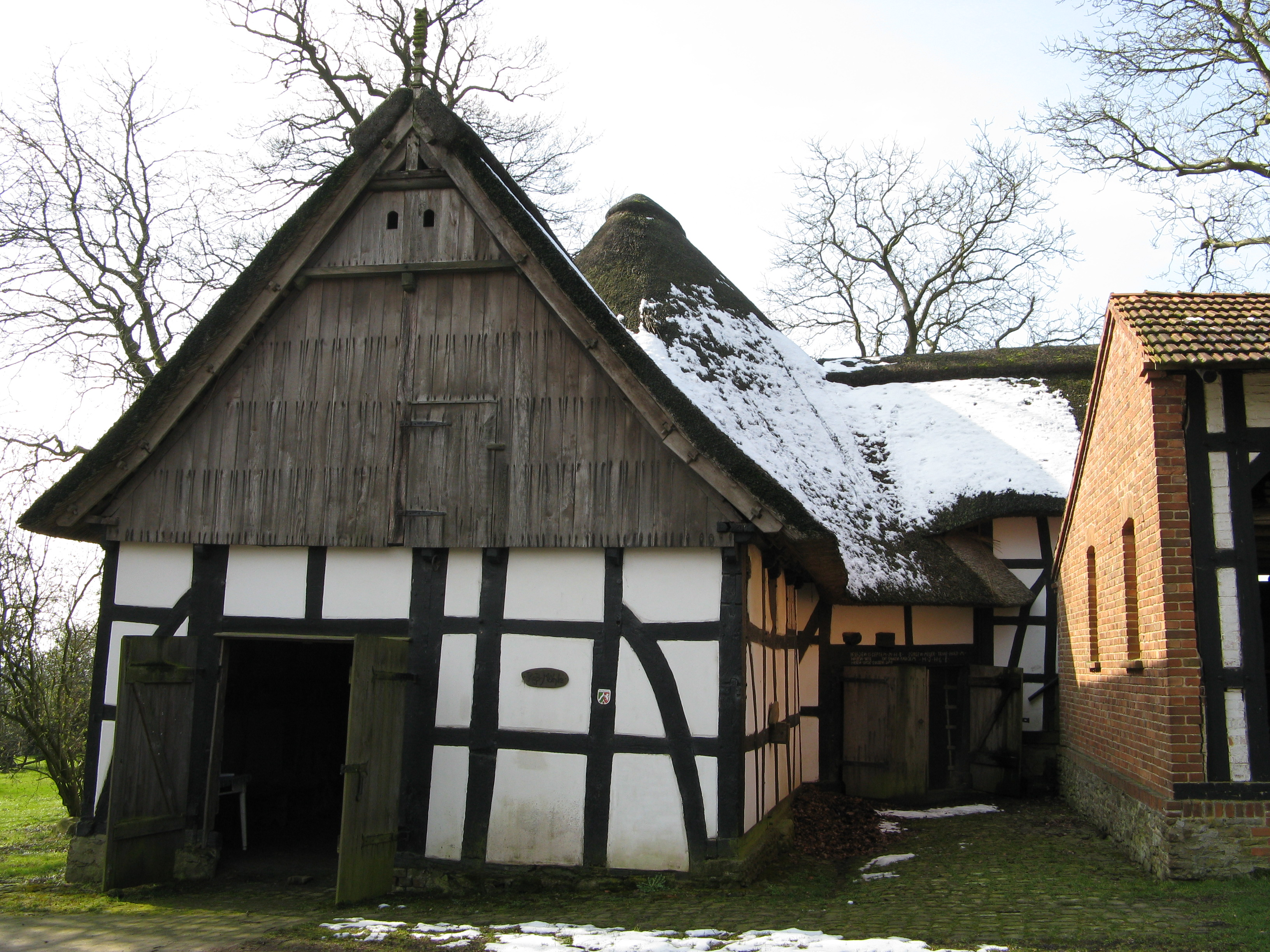 This image shows a heritage building in Germany, located in the North Rhine-Westphalian municipality Hüllhorst (no. 12).